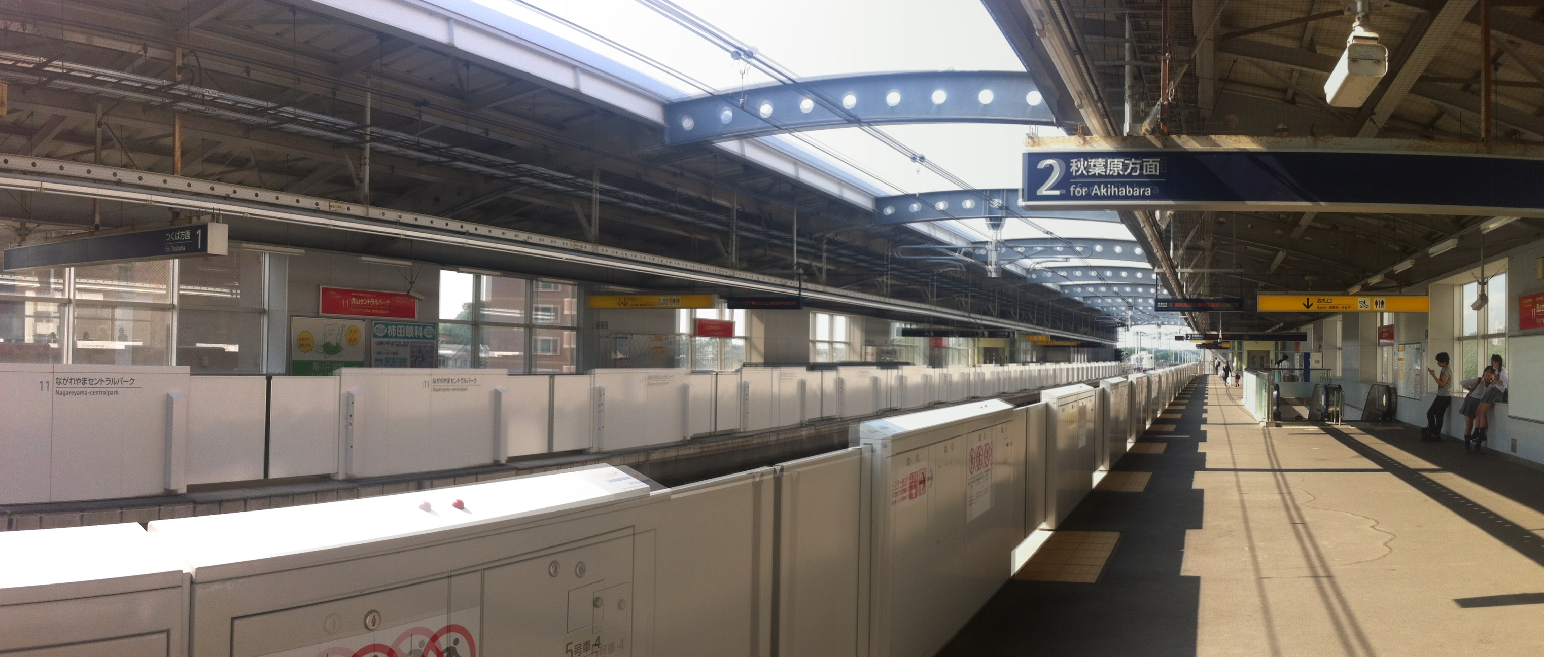 流山セントラルパーク駅のホーム Nagareyama Central Park station platforms